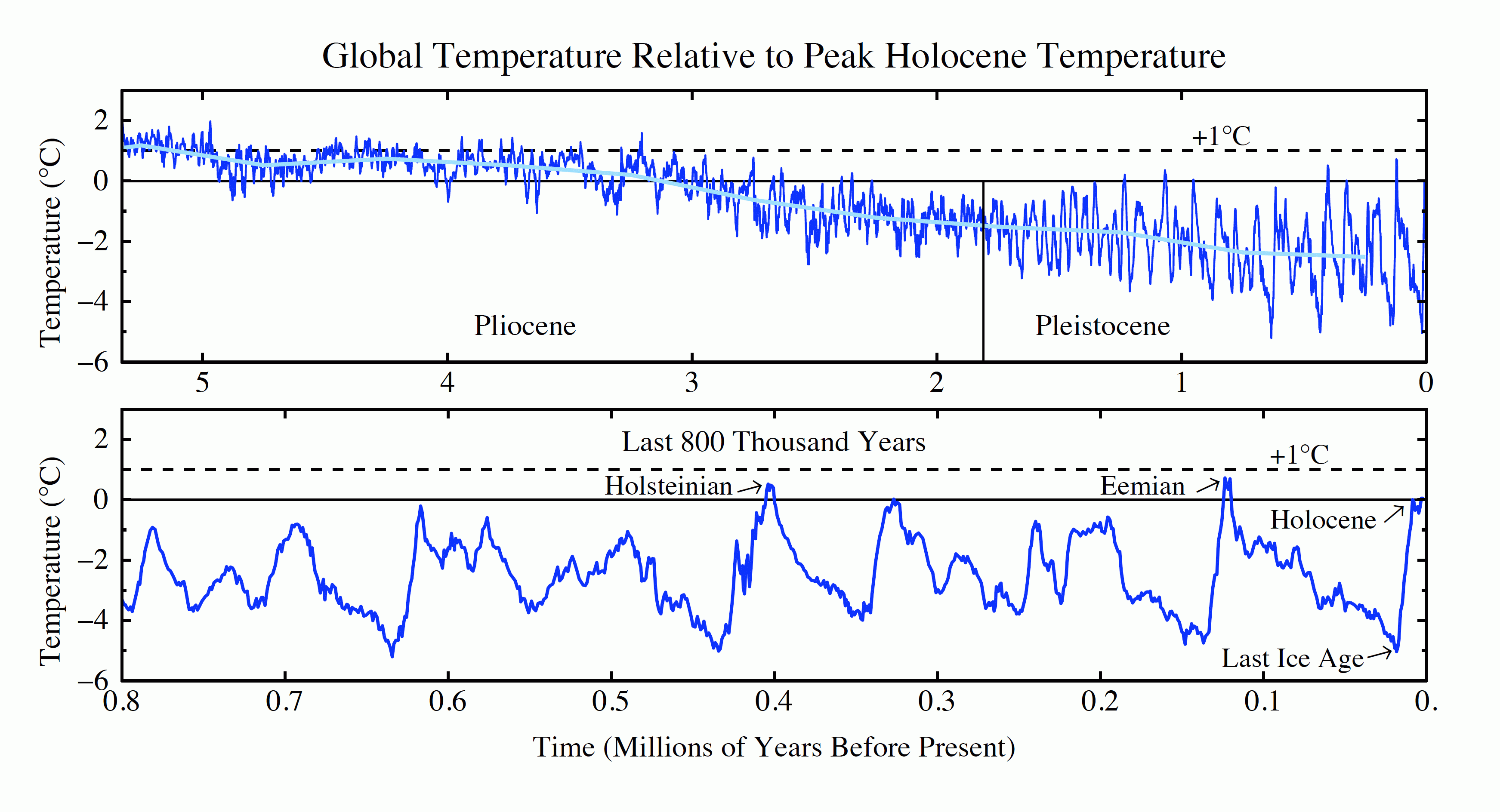 These two graphs show global temperatures for two different time periods (Hansen and Sato, 2011). The top graph shows global surface temperature for the past 5.3 million years as inferred from cores of ocean sediments taken all around the global ocean. The last 800,000 years are expanded in the bottom graph. From the cited public-domain source (Hansen and Sato, 2011): "Assumptions are required to estimate global surface temperature change from deep ocean changes, but we argue and present evidence that the ocean core record yields a better measure of global mean change than that provided by polar ice cores. Civilization developed during the Holocene, the interglacial period of the past 10,000 years during which global temperature and sea level have been unusually stable. (This image) shows two prior interglacial periods that were warmer than the Holocene: the Eemian (about 130,000 years ago) and the Holsteinian (about 400,000 years ago). In both periods sea level reached heights at least 4-6 meters (13-20 feet) greater than today. In the early Pliocene (around 3 million years ago) global temperature was no more than 1-2°C warmer than today, yet sea level was 15-25 meters (50-80 feet) higher."